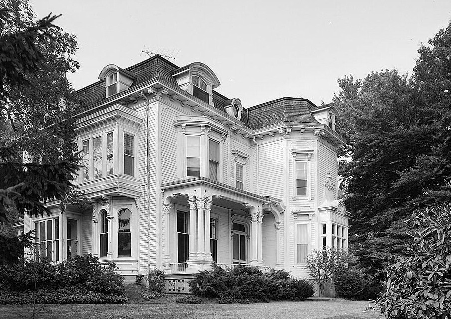 Zalmon Wakeman House, 418 Harbor Road, Southport (Fairfield County, Connecticut) cropped This file comes from the Historic American Buildings Survey (HABS), Historic American Engineering Record (HAER) or Historic American Landscapes Survey (HALS). These are programs of the National Park Service established for the purpose of documenting historic places. Records consist of measured drawings, archival photographs, and written reports. When reusing please credit: Library of Congress, Prints & Photographs Division, CONN,1-SOUPO,10-1 This tag does not indicate the copyright status of the attached work. A normal copyright tag is still required. See Commons:Licensing. This work is in the public domain in the United States because it is a work prepared by an officer or employee of the United States Government as part of that person’s official duties under the terms of Title 17, Chapter 1, Section 105 of the US Code. Note: This only applies to original works of the Federal Government and not to the work of any individual U.S. state, territory, commonwealth, county, municipality, or any other subdivision. This template also does not apply to postage stamp designs published by the United States Postal Service since 1978. (See § 313.6(C)(1) of Compendium of U.S. Copyright Office Practices). It also does not apply to certain US coins; see The US Mint Terms of Use. This file has been identified as being free of known restrictions under copyright law, including all related and neighboring rights.